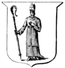 arms of scottish diocese (Galloway)